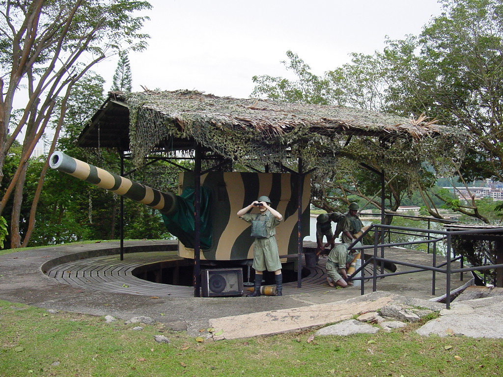 Replica 6-inch Mk VII gun and crew at Fort Siloso, Sentosa Island, Singapore.